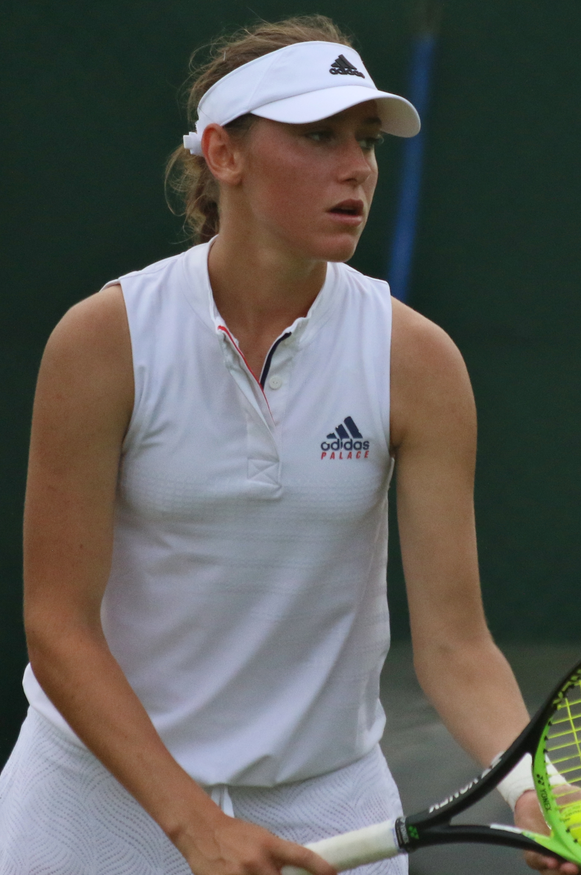 Juvan at 2019 Wimbledon Qualifying.